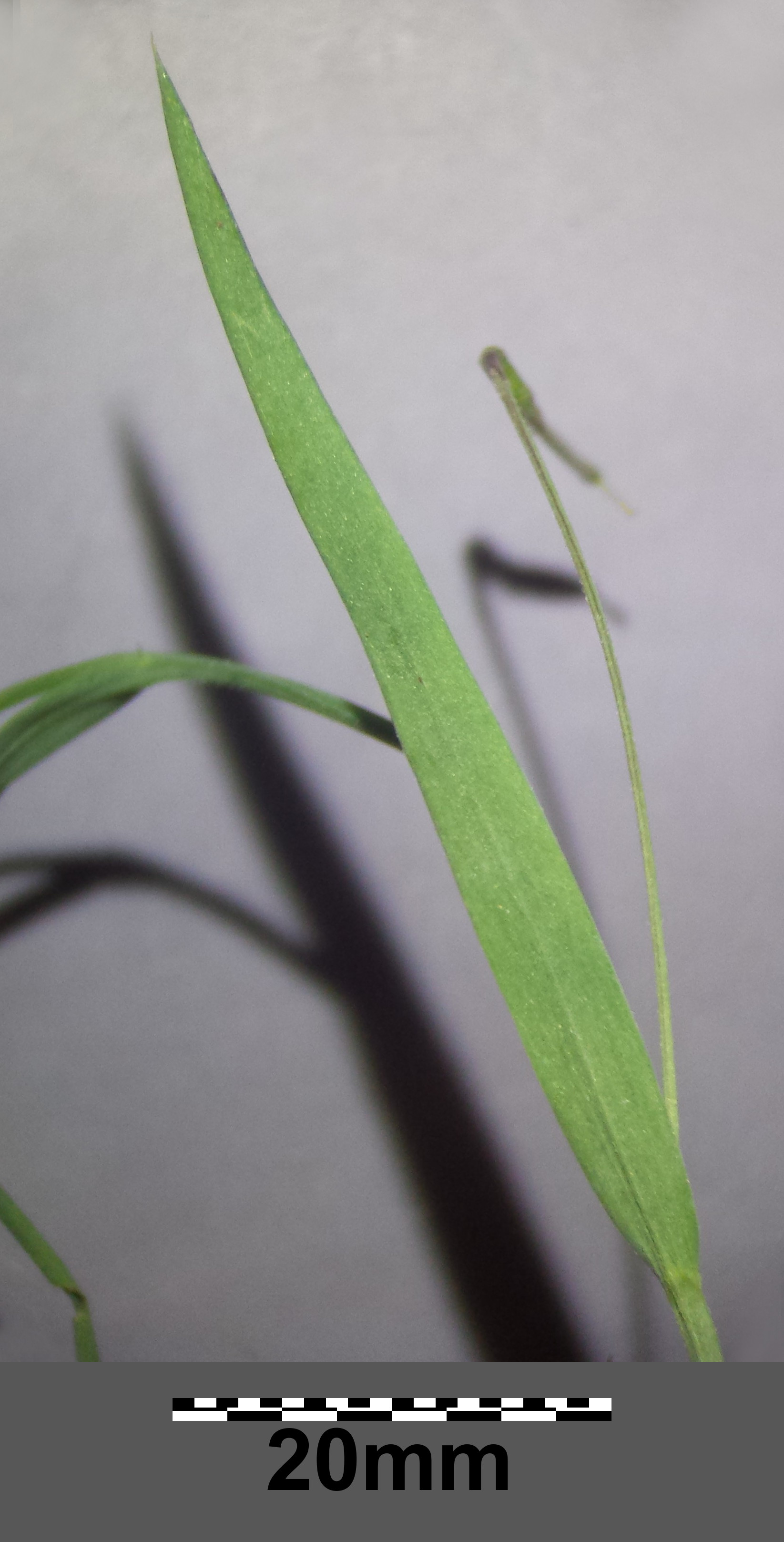 Leaf Taxonym: Lathyrus nissolia ss Fischer et al. EfÖLS 2008 ISBN 978-3-85474-187-9 Location: between Limberg and Burgschleinitz, district Horn, Lower Austria - ca. 350 m a.s.l. Habitat: meadows